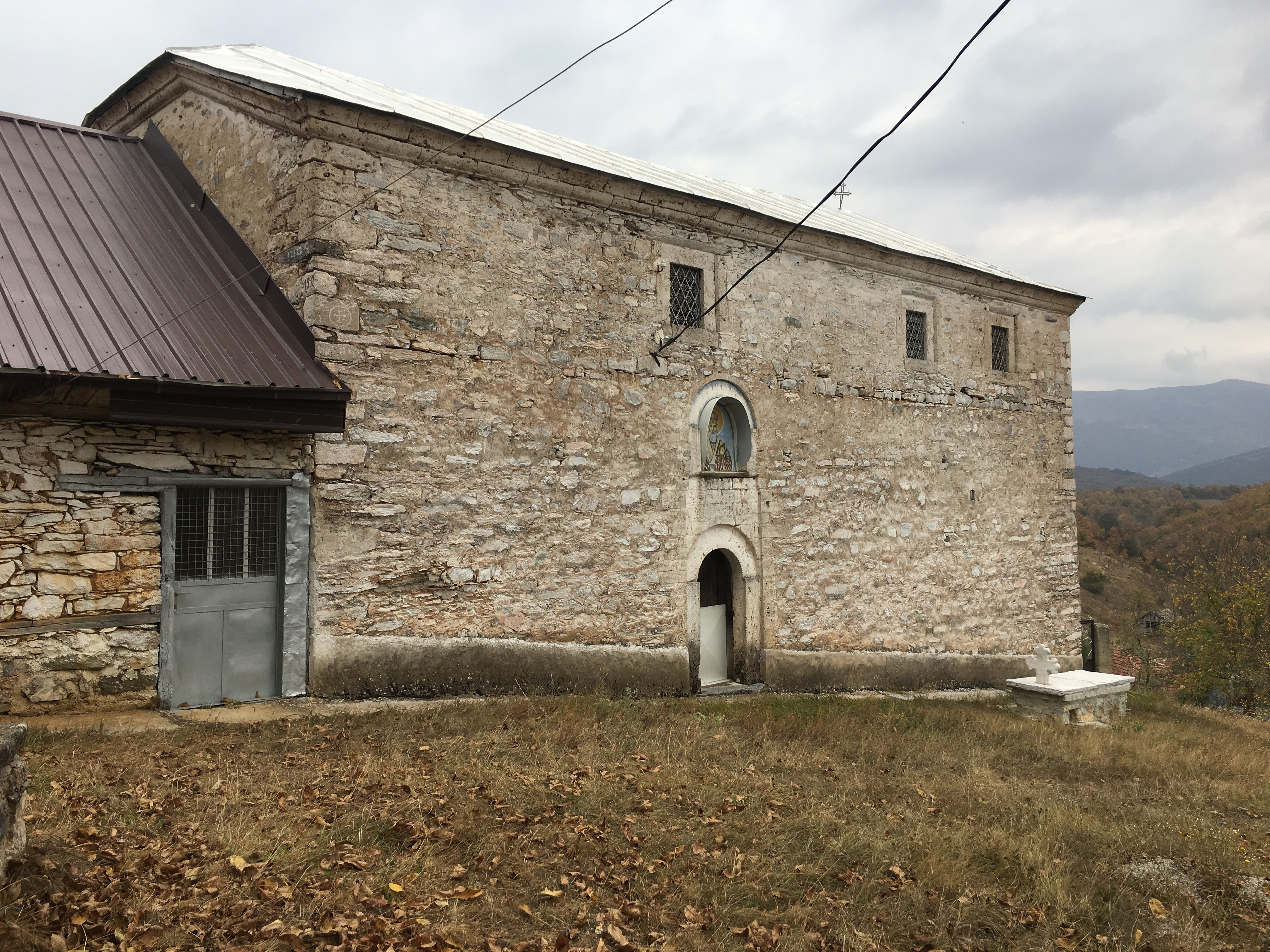 Wikiexpedition to Kopačka